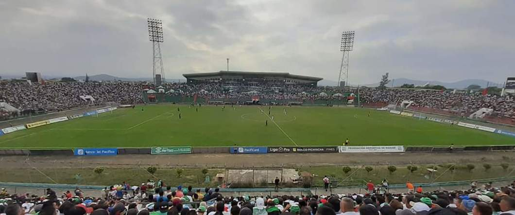 This is